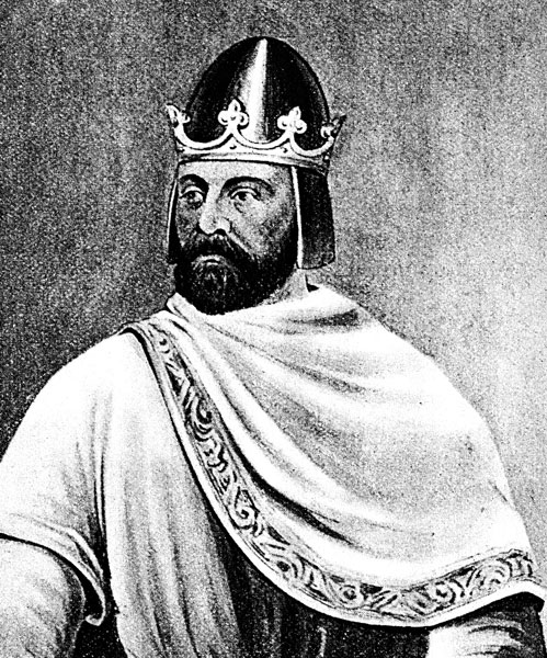 "Vojislav, Serbian King" (note that Stefan Vojislav was not King, only his son, Mihajlo.)